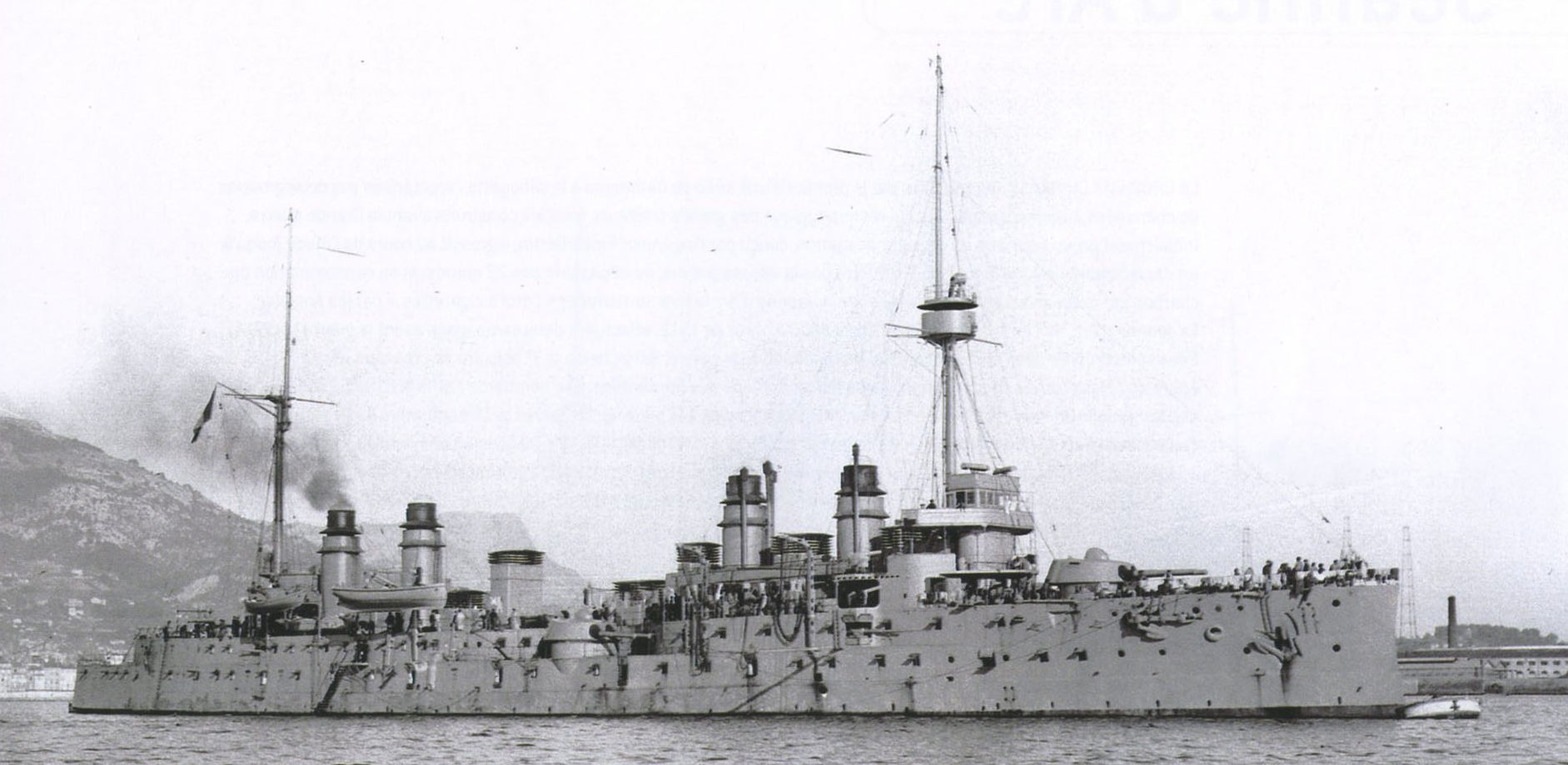 French cruiser Dupleix